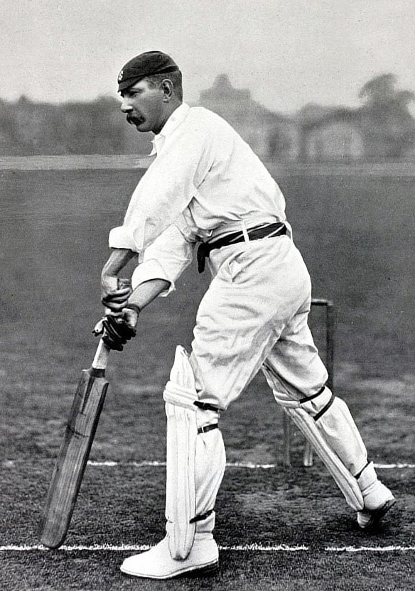 Sport, Cricket, Circa 1900, William Henry Lockwood, Surrey, (1889-1904) and England, (1893-1902).